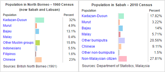 Population comparison of North Borneo (present-day Sabah) from 1960 and 2010 after undergoing massive controversial political demographic change.